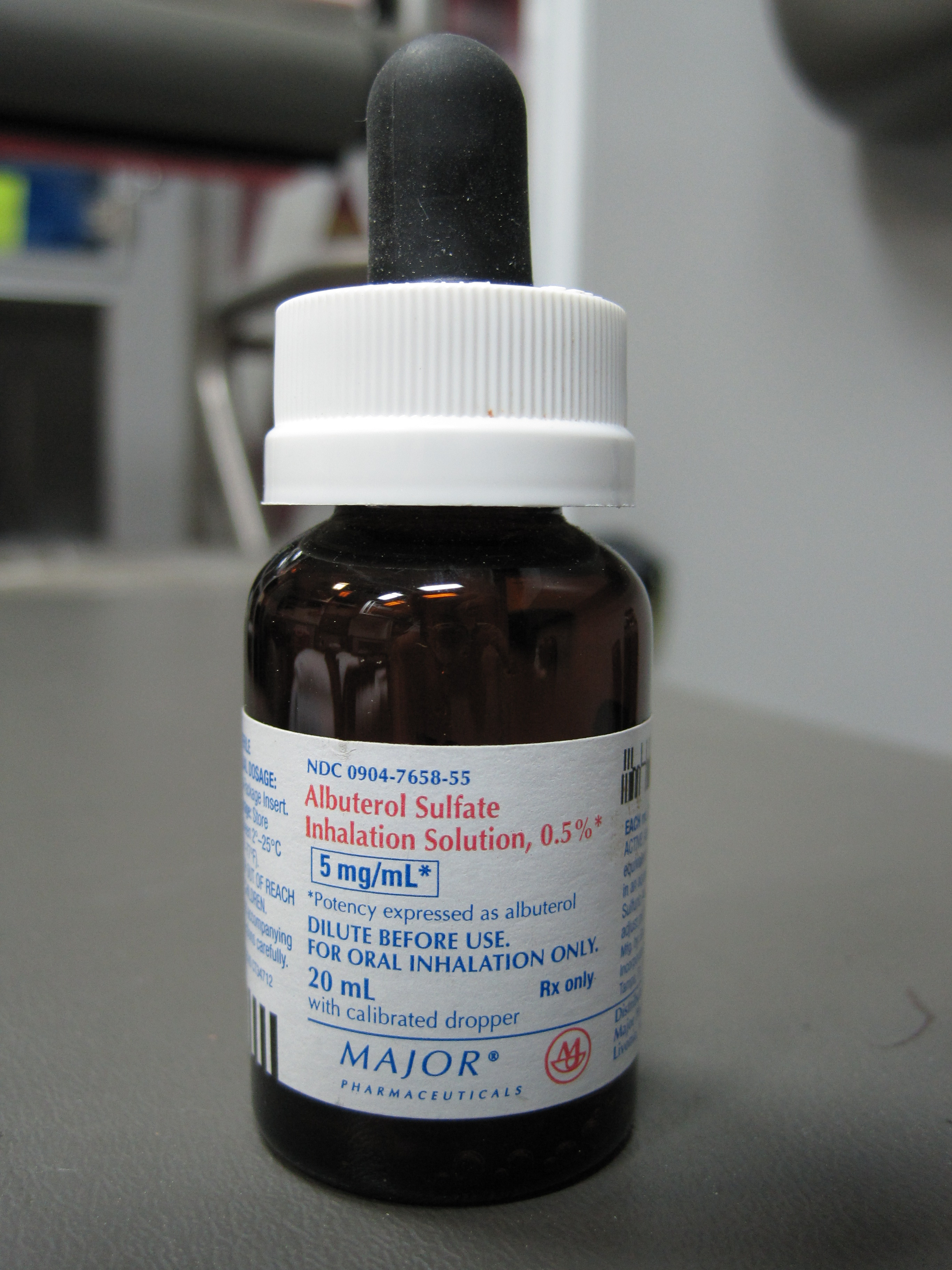 0.5% Albuterol Sulfate preparation, vial with eyedropper for inhalation by nebulizer.